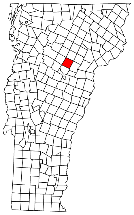 Description: Map of Vermont towns with Calais highlighted Source: Map created by Jared C. Benedict on 26 March 2004. Copyright: © Jared C. Benedict.